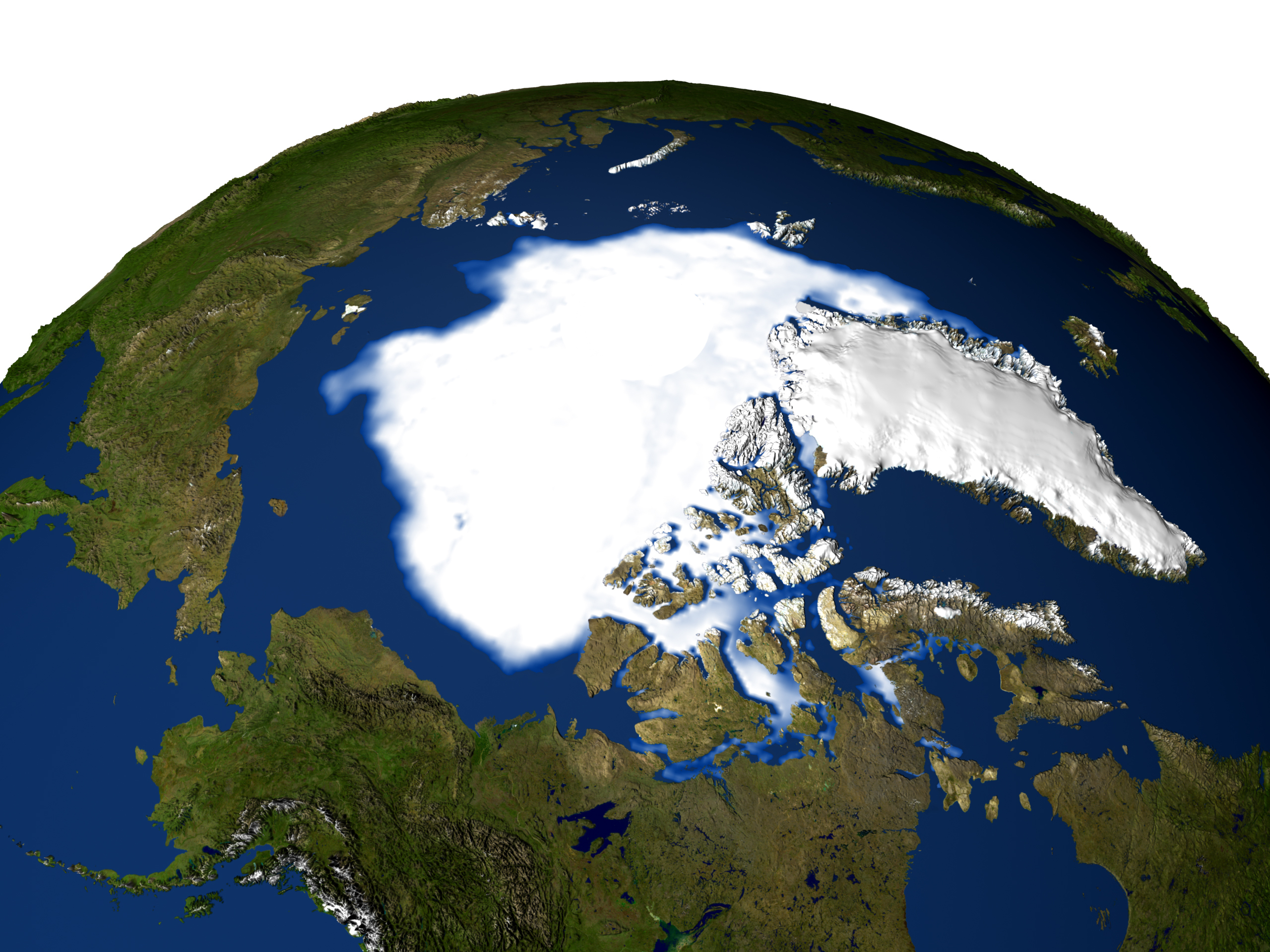 Arctic sea ice continues to decline, arctic temperatures continue to rise. Background story includes similar image from 1979 for comparison.